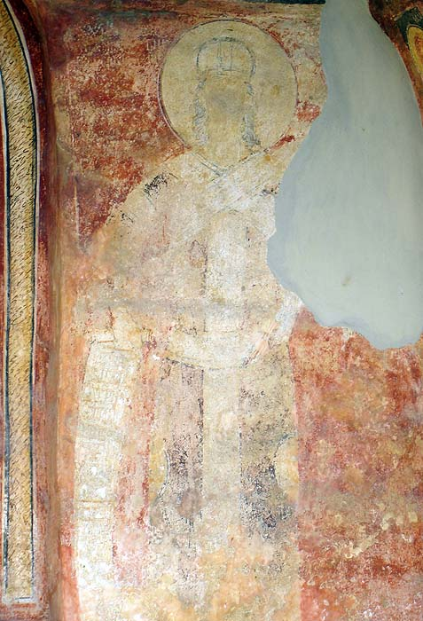 king Volkašin, second half of the XIV century, fresco from Marko`s monastery near Skoplje, Republic of Macedonia